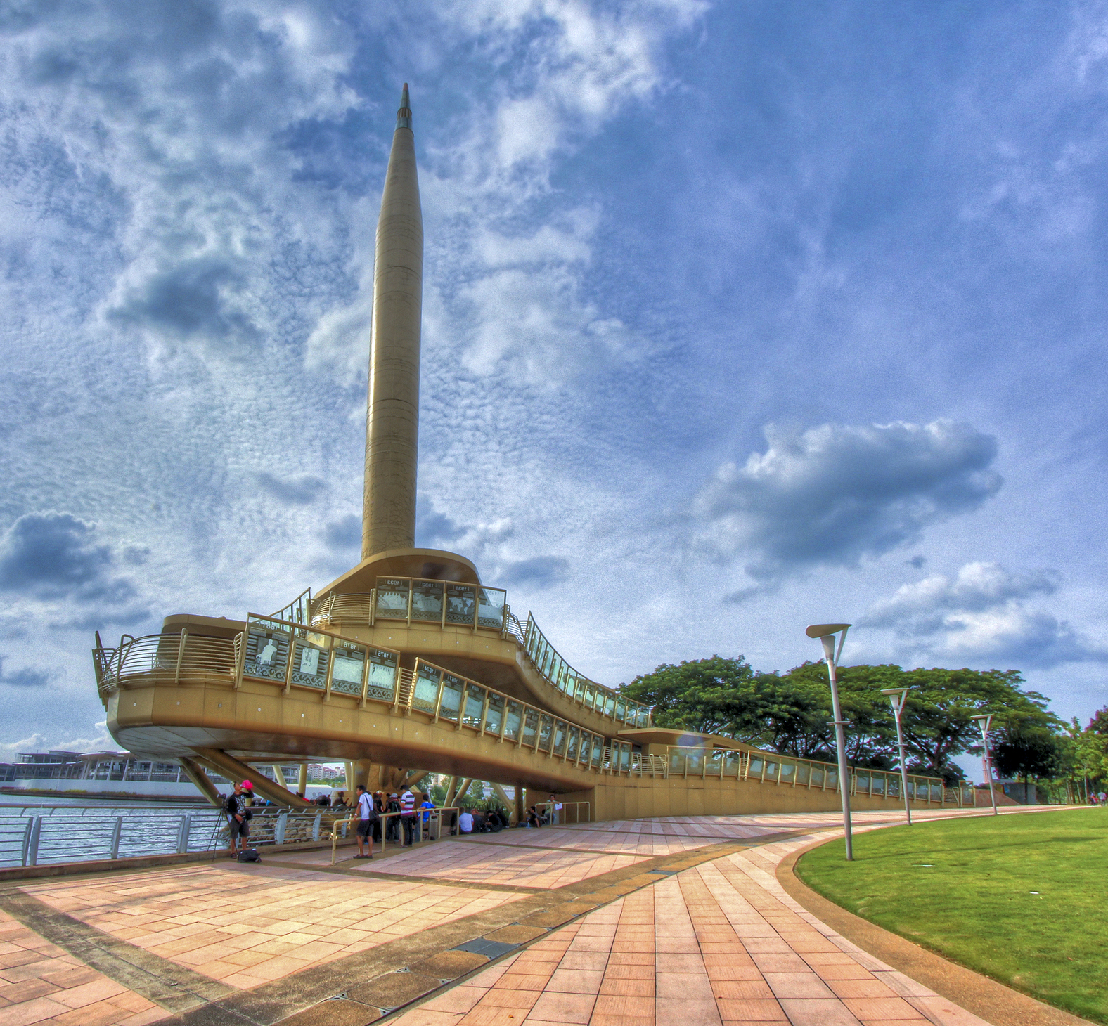 3 exposures HDR - Samyang 8mm - Lens Correction in CS6